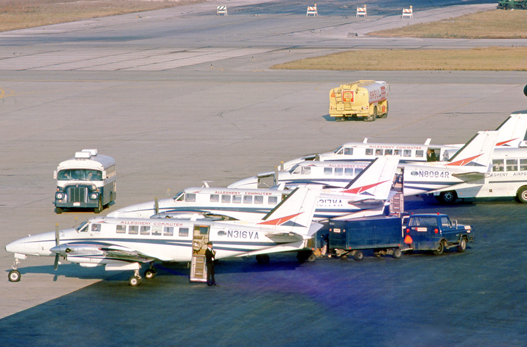 Beech 99 N316VA of Britt Airways in Allegheny Commuter markings at Chicago O'Hare in 1975